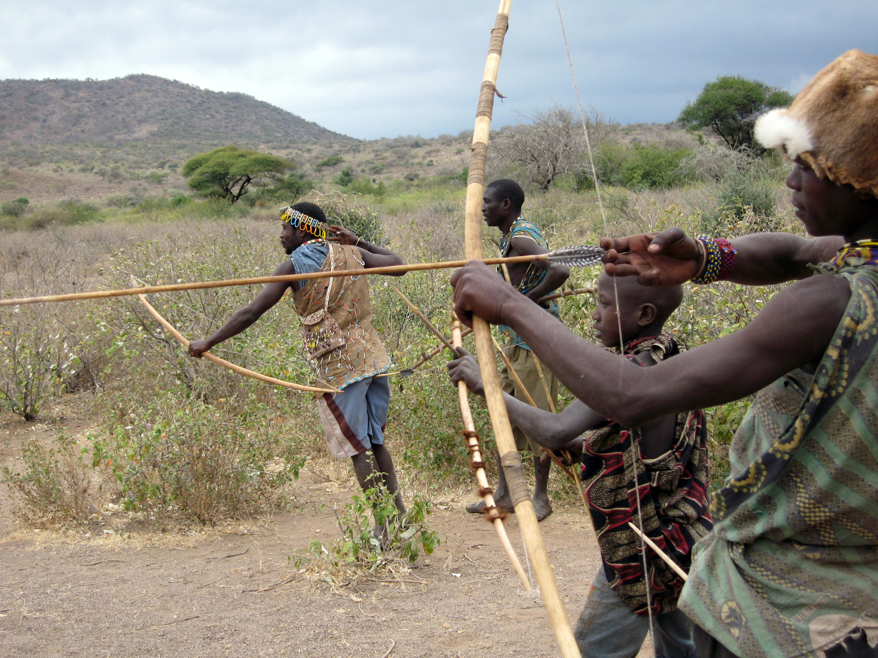 Hadza archery, Lake Eyasi, Tanzania